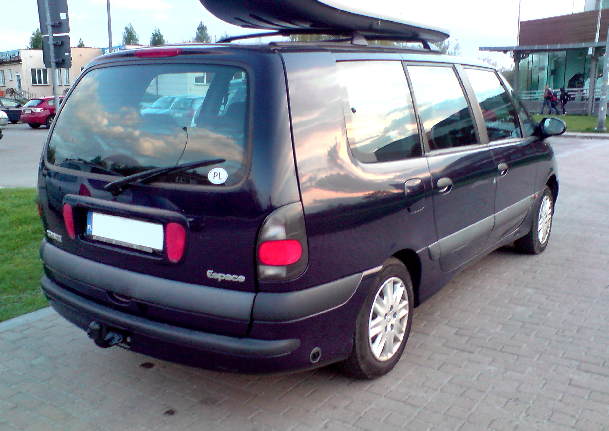 Renault Espace III seen in Jasło, Poland.